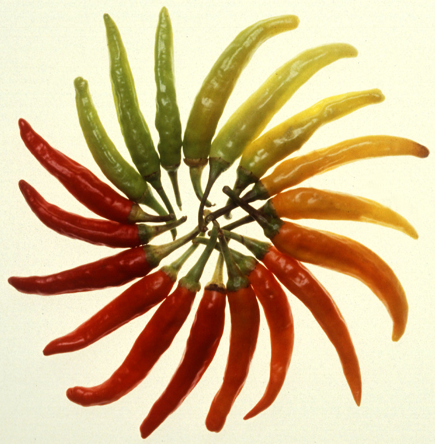 Charleston Hot peppers at varying stages of maturity. Photo by Scott Bauer. Image Number K5047-1. [1] Category:Fruit and vegetable images